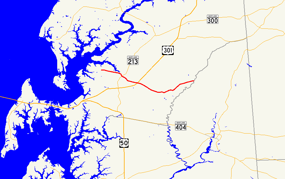 Map of Maryland Route 304